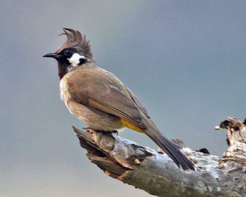 Himalayan Bulbul (White-cheeked Bulbul) Pycnonotus leucogenys. Pokhara Valley, Nepal.